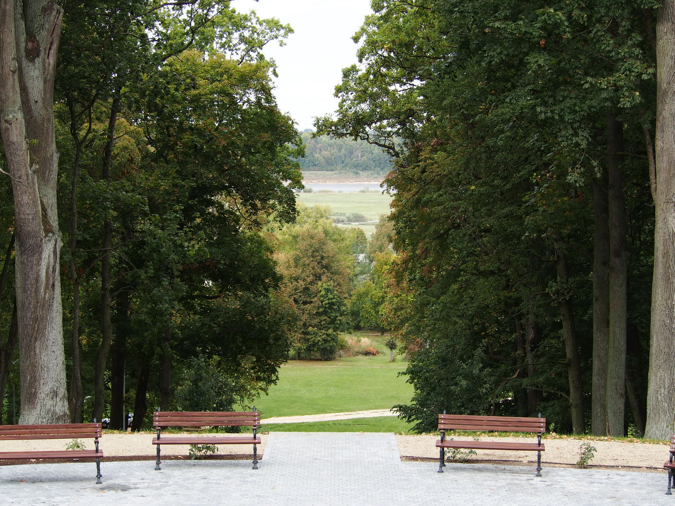 Gelgaudiškis manor park